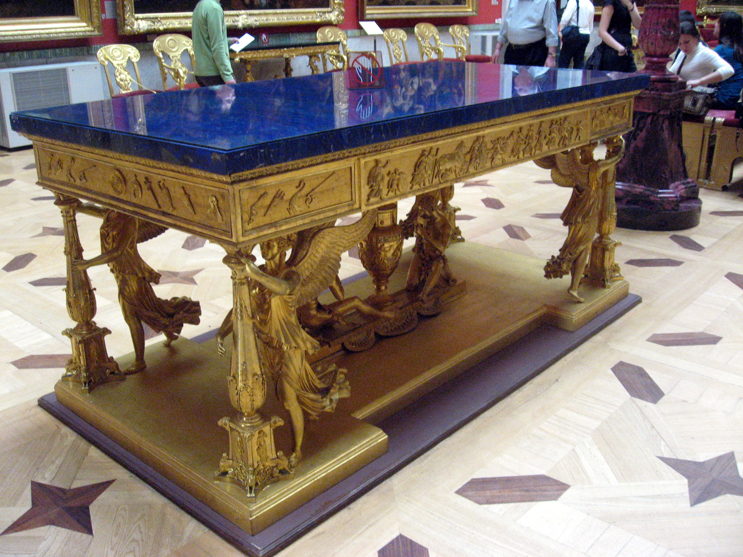 Ermitáž